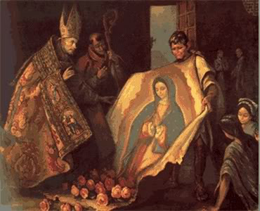 Miracle of Our Lady of Guadalupe Rosas